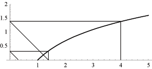 A diagram demonstrating that the iterated logarithm of 4 (base e) is 2. The curve is log(n), and the other lines are following the path of iteration. Created by Derrick Coetzee in Mathematica, Illustrator, and Photoshop.